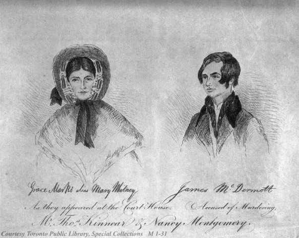 From the Trial Pamphlet, (1843) Grace Marks (left) sketched with James McDermott (right)